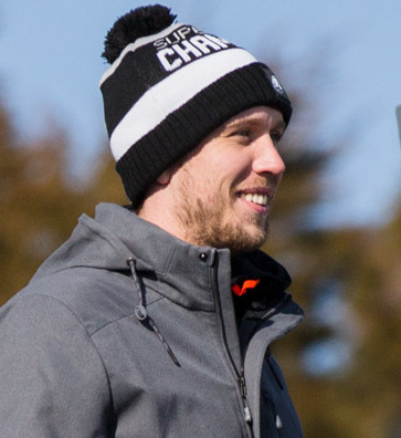 February 8, 2018 Philadelphia, PA